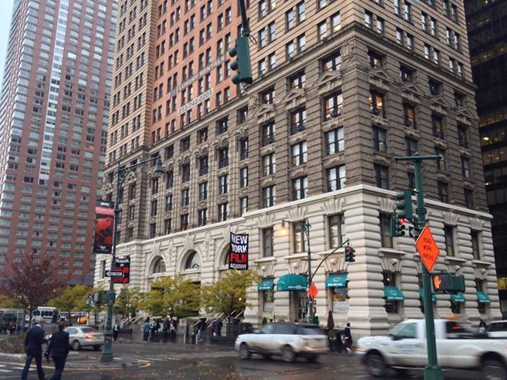 The New York Film Academy branch, located in Downtown Manhattan near Battery Park. This branch consists of Acting for Film, Musical Theatre, Filmmaking, Broadcast Journalism, and Photography.